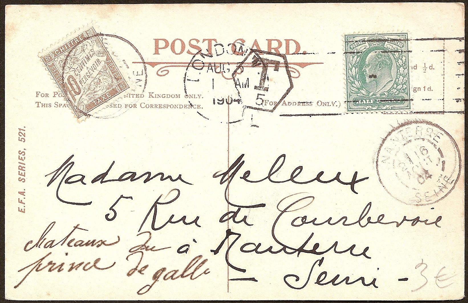 Postcard cancelled in London, August 1904, and taxed in Nanterre (France).